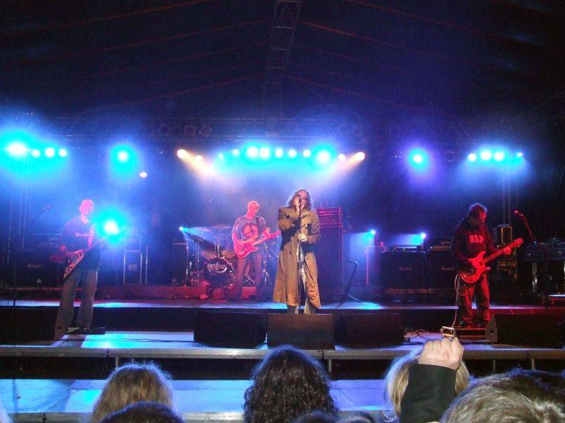 Perfect